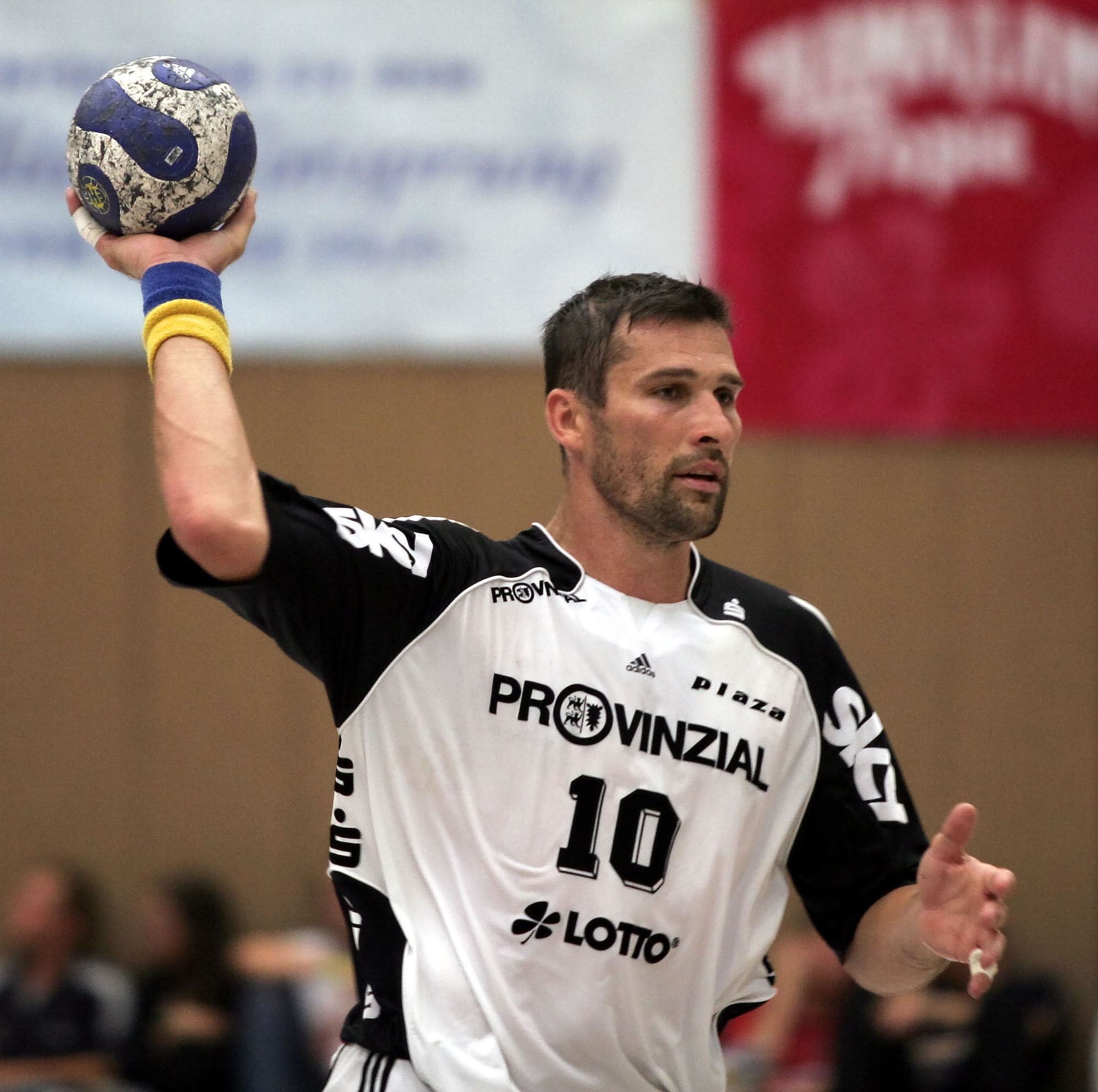 Stefan Lövgren, the Swedish handball player from THW Kiel, during the Schlecker Cup 2007 in Ehingen (Germany)